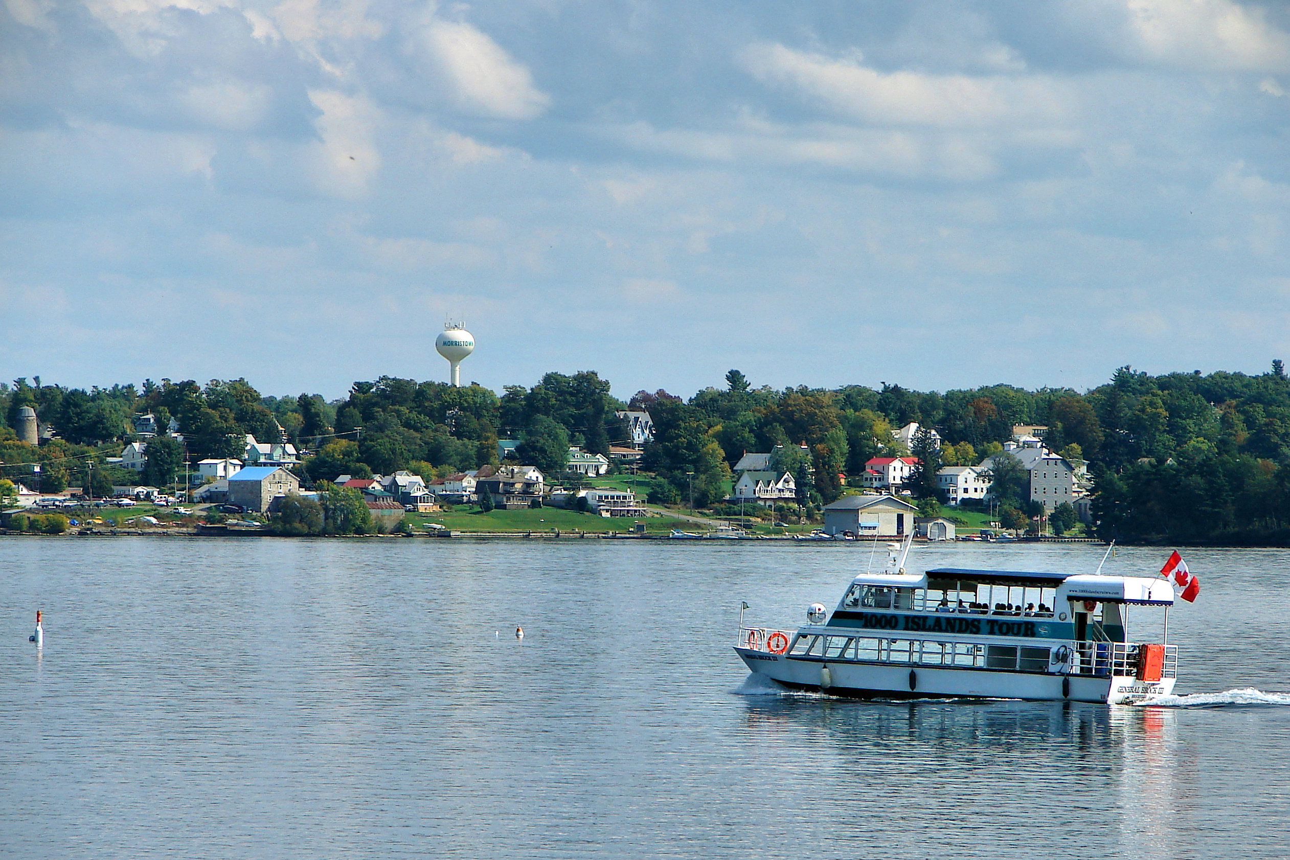 Morristown, New York, USA, as seen across the Saint Lawrence River from Brockville, Canada